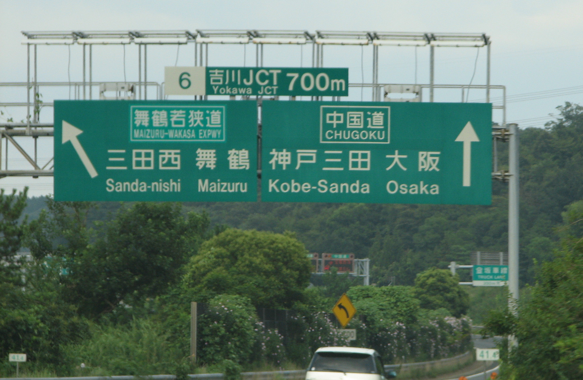 Yokawa JCT (for Suita)